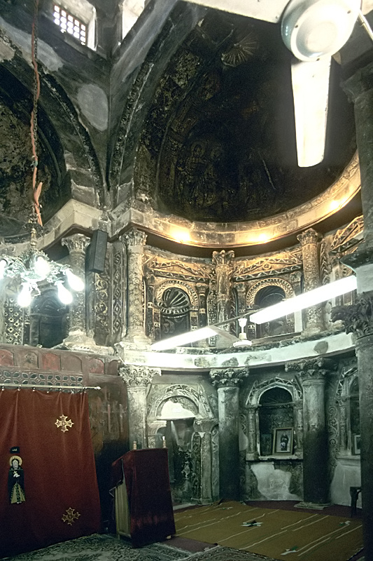 Right Conch in the Red Monastery in the governorate of Sohag, Egypt